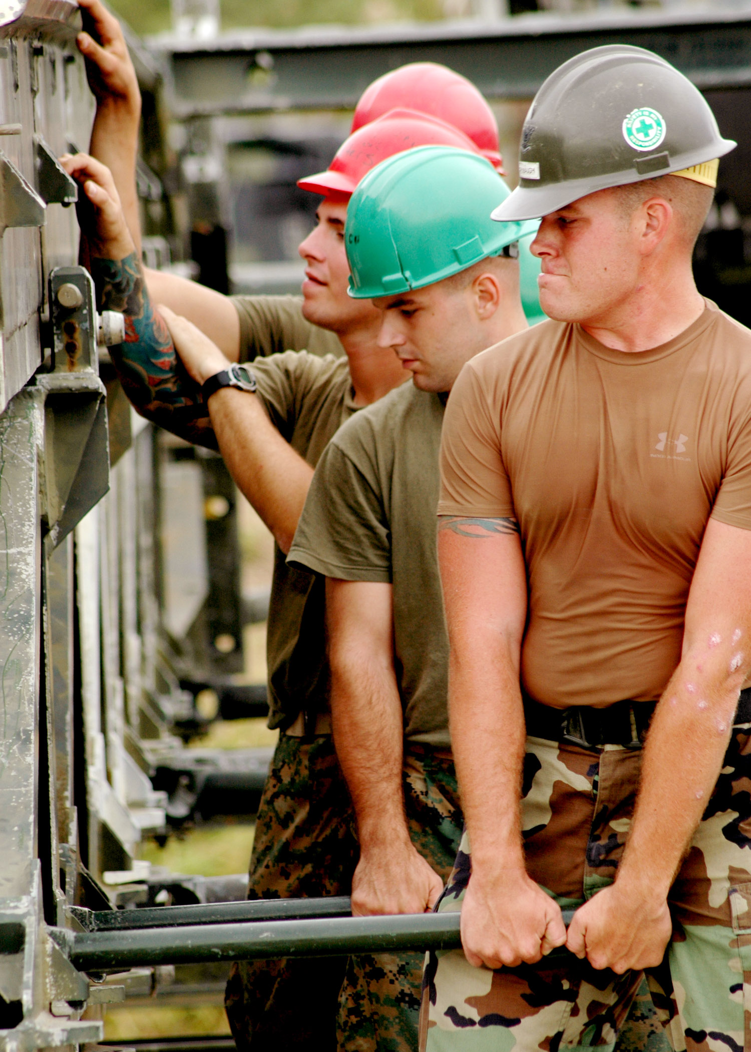 Okinawa, Japan (Nov. 14, 2006) - U.S. Navy Seabee Utilitiesman 3rd Class Mark Crubaugh, stationed with Naval Mobile Construction Battalion ONE (NMCB-1), works alongside Marines from the 9th Engineer Support Battalion, 3rd Marine Logistics Group, 3rd Marine Expeditionary Force to, assemble a Medium Girder Bridge during a training exercise at Camp Hansen, Japan. Joint military training evolutions help to foster key relationships between the Marines and Seabees in contingency environments. U.S. Navy photo by Mass Communication Specialist 3rd Class Ja'lon A. Rhinehart (RELEASED)